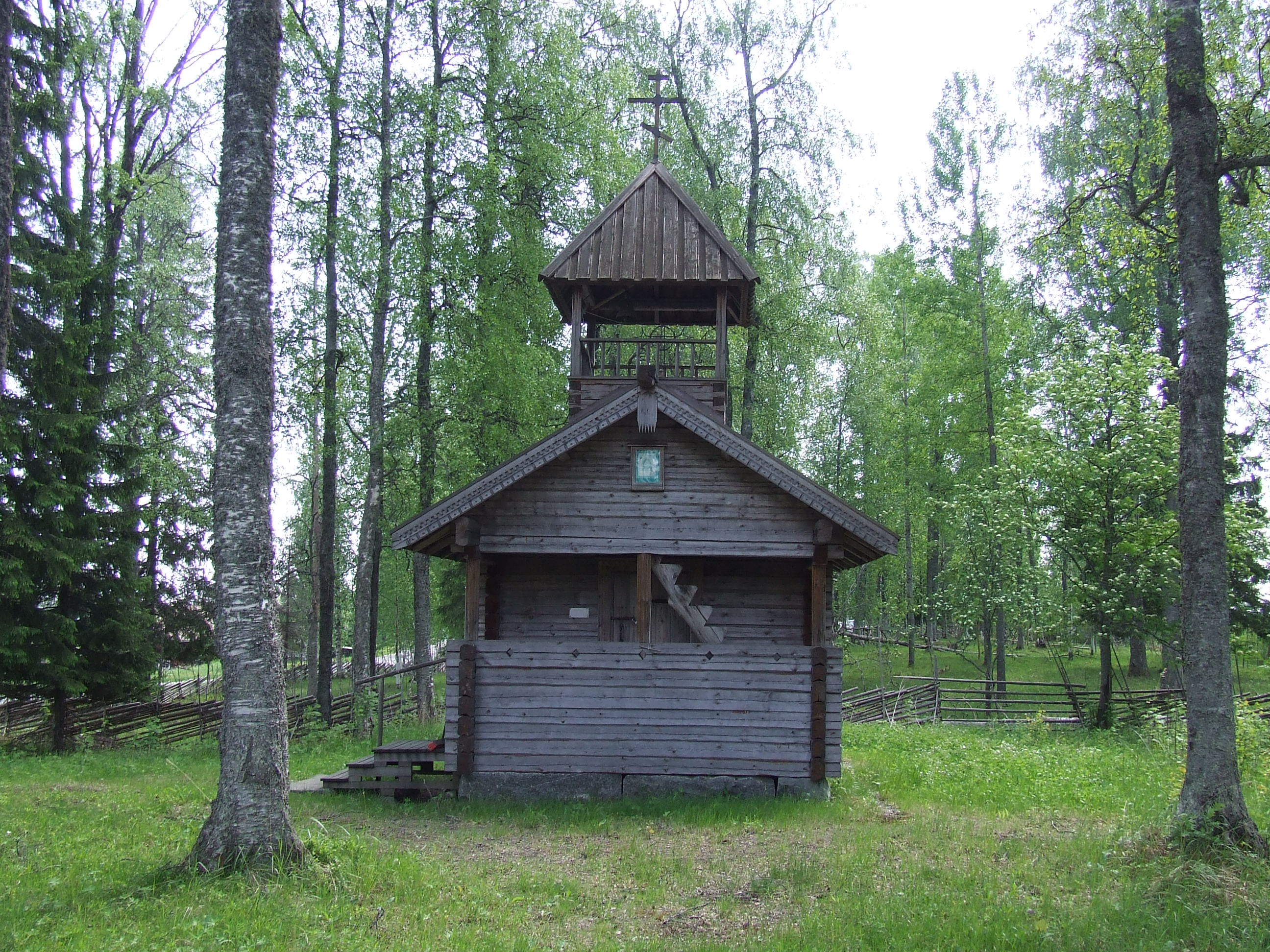 The orthodox chapel in Heinävaara, Joensuu, Finland.